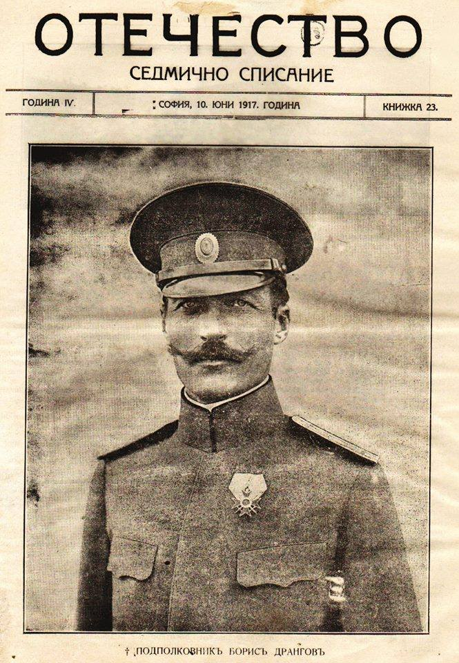 Otechestvo 10 June 1917